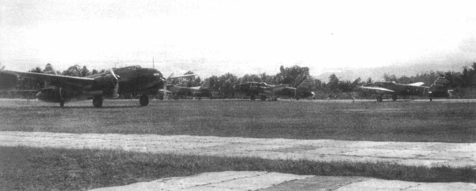 Mitsubishi G4M bombers at Davao air base on Mindanao, Philippines